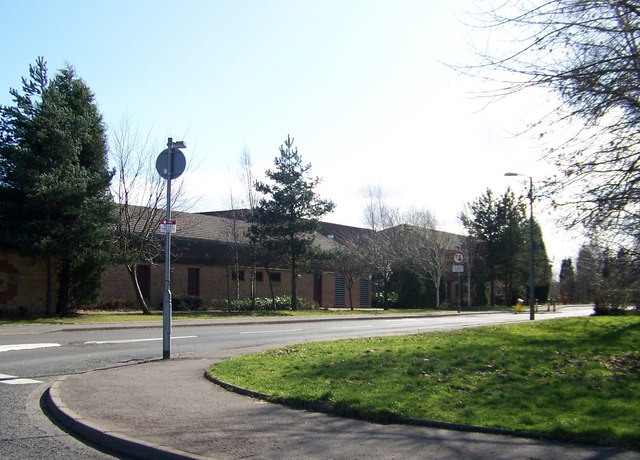 Kirklands Hospital This is mainly a training centre for NHS Lanarkshire